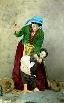 Giorgio Conrad (1827-1889) - Street scene. Catalogue # 202a.